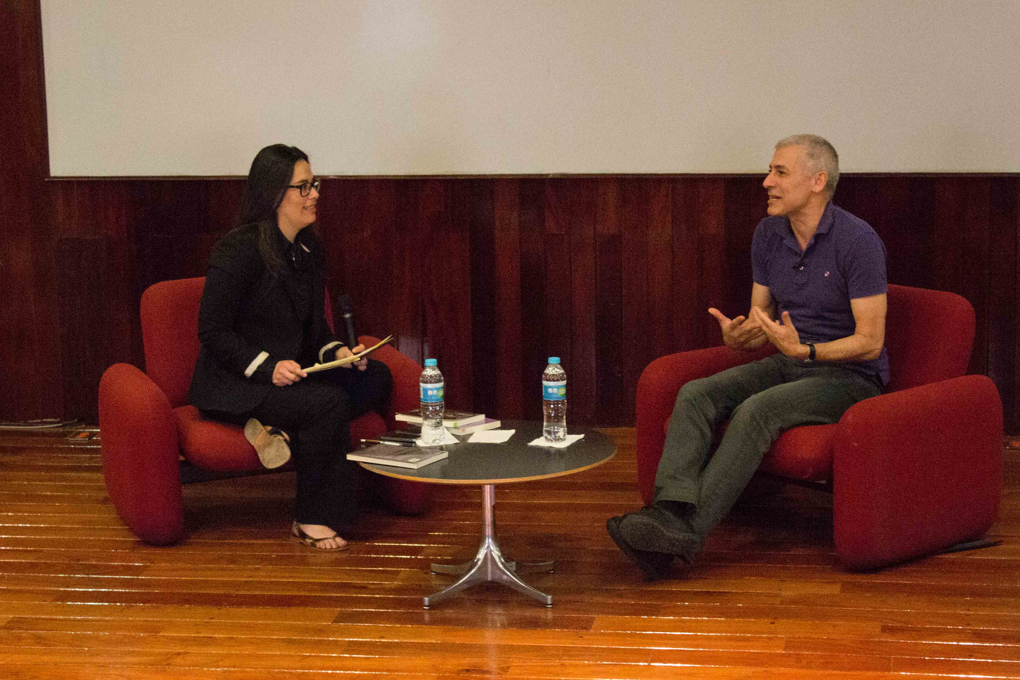 Spanish writer José Ovejero speaking at the campus library of Tec de Monterrey, Mexico City Campus